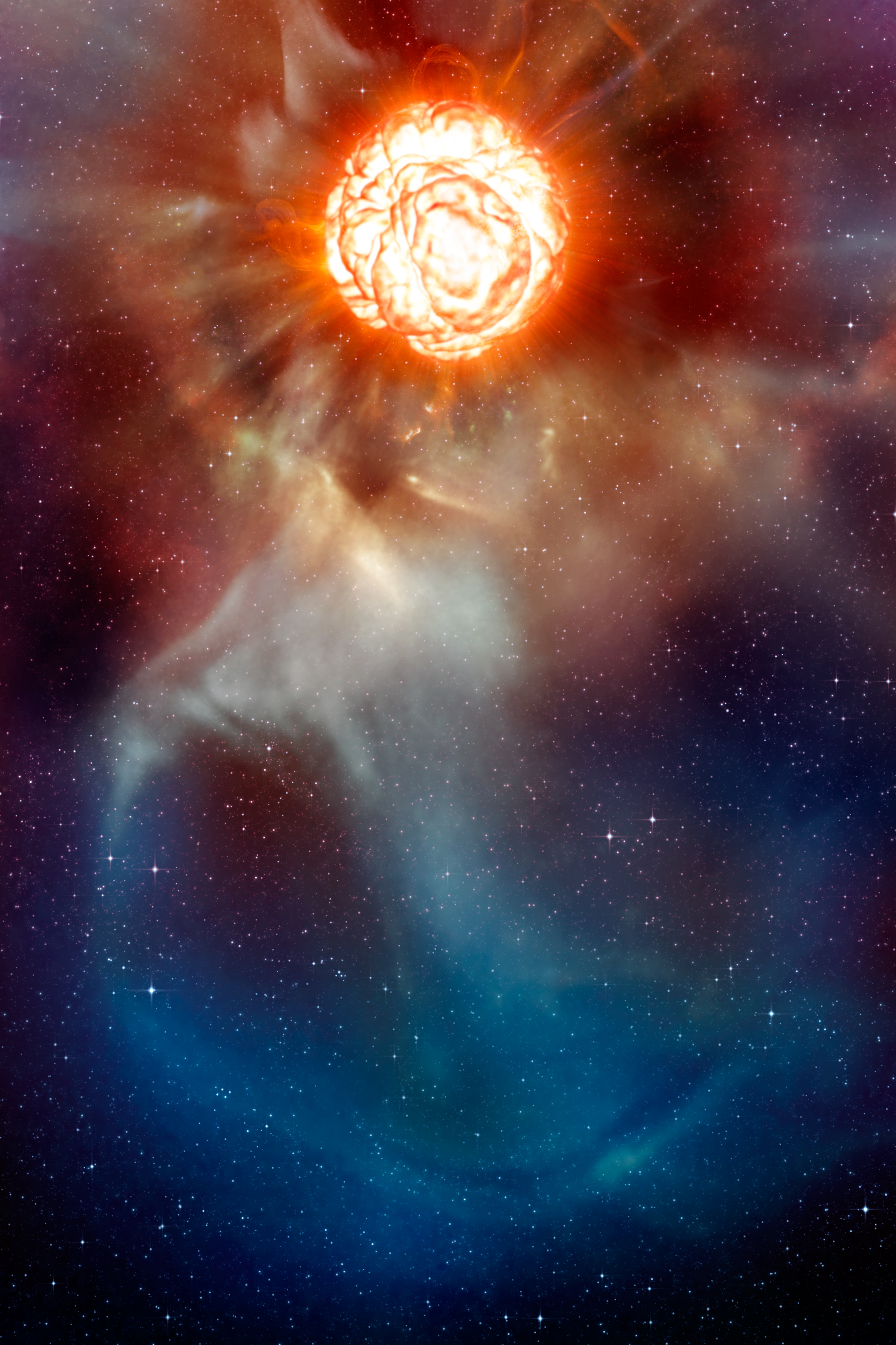 This artist’s impression shows the supergiant star Betelgeuse as it was revealed thanks to different state-of-the-art techniques on ESO’s Very Large Telescope (VLT), which allowed two independent teams of astronomers to obtain the sharpest ever views of the supergiant star Betelgeuse. They show that the star has a vast plume of gas almost as large as our Solar System and a gigantic bubble boiling on its surface. These discoveries provide important clues to help explain how these mammoths shed material at such a tremendous rate.